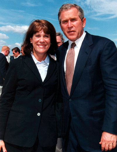 Rep. Anne Northup greets President George W. Bush in Louisville, KY in May 2001.